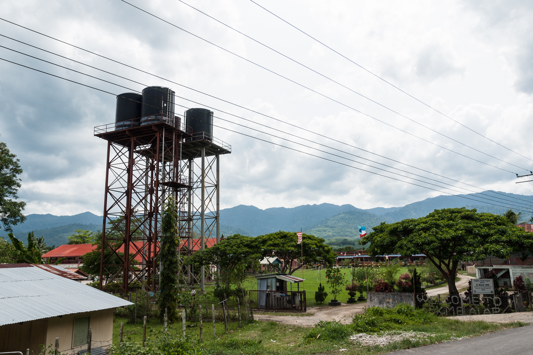 Melalap, Sabah, Malaysia: Sekolah Kebangsaan Melalap